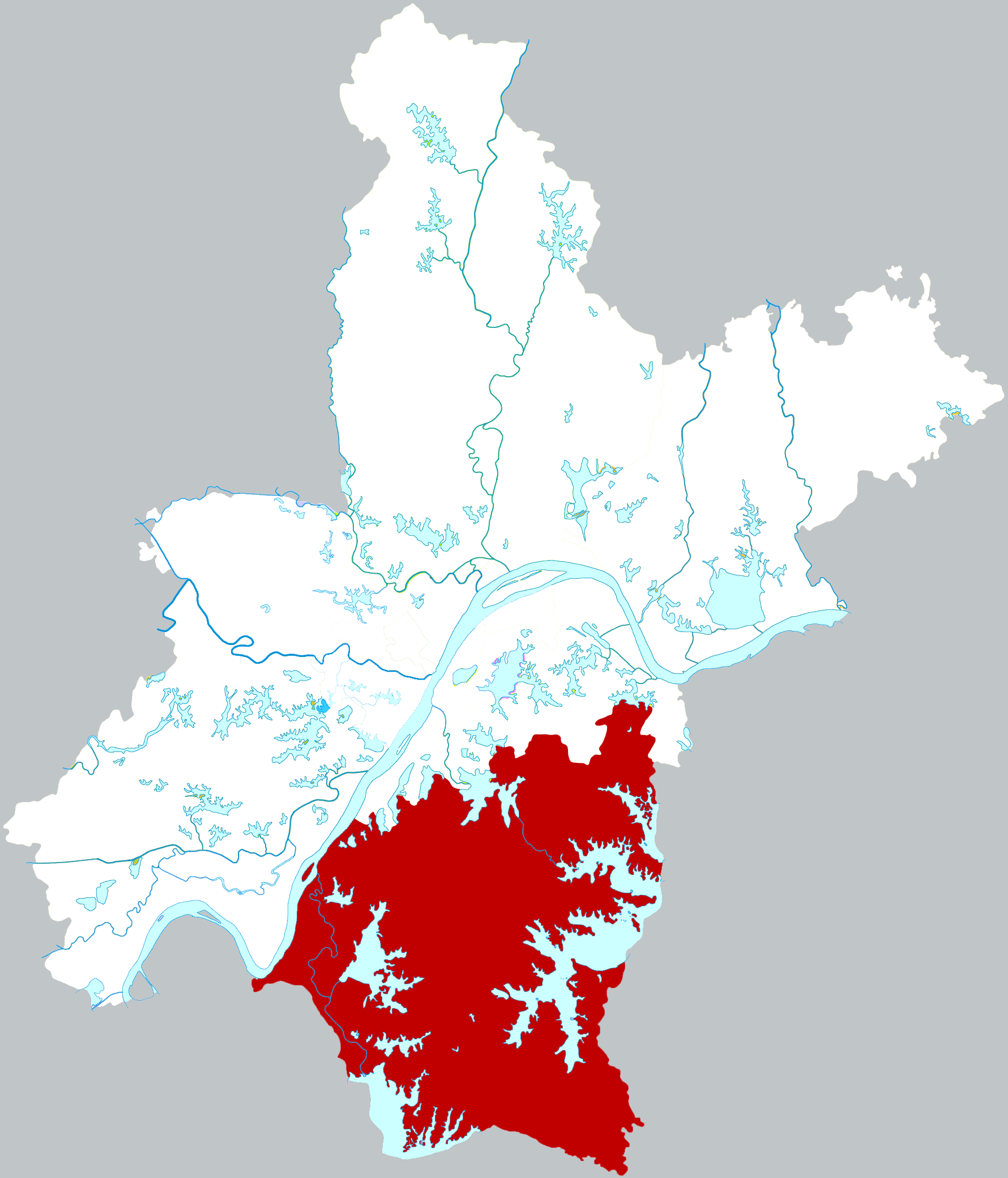 Location of Jiangxia district in Wuhan city, China